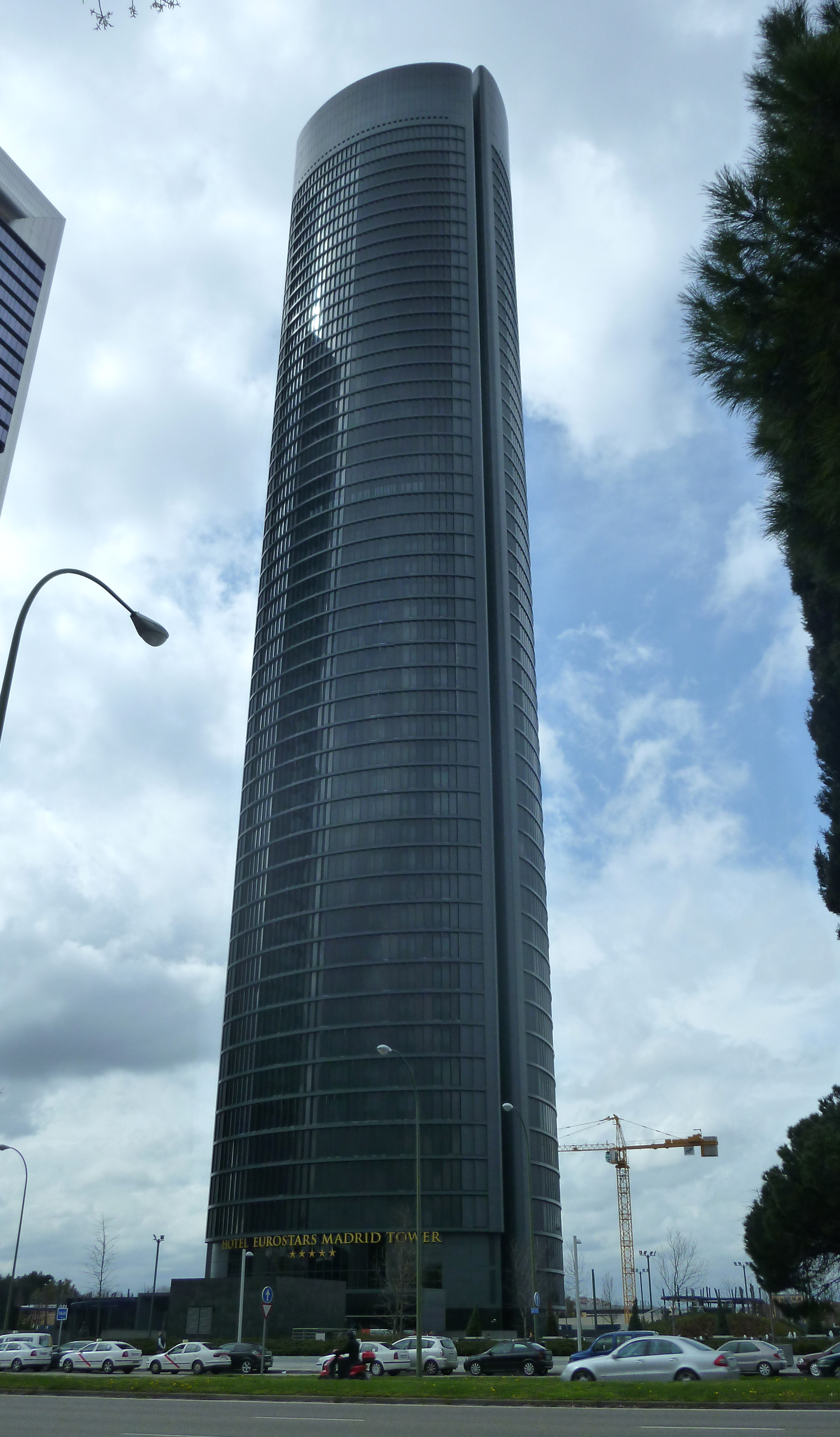 View, from the north-east angle, of PwC Tower, in Cuatro Torres Business Area (Madrid, Spain).